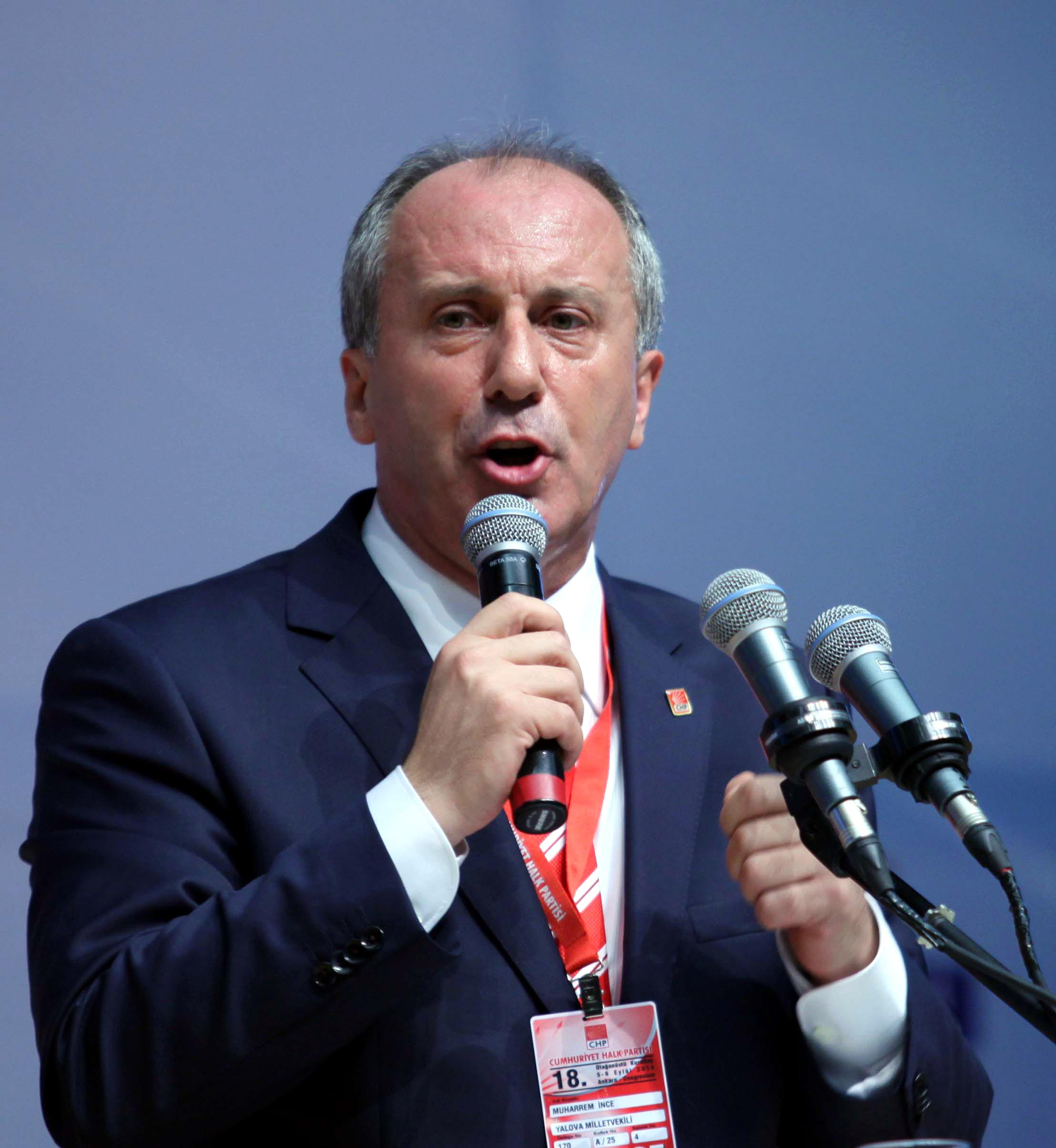 Muharrem İnce; Turkish MP and candidate chairman of Republican People's Party (CHP) adressing at 2014 Republican People's Party Convention, Ankara, Turkey.